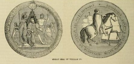 The Great Seal of the Realm of William IV of the United Kingdom .